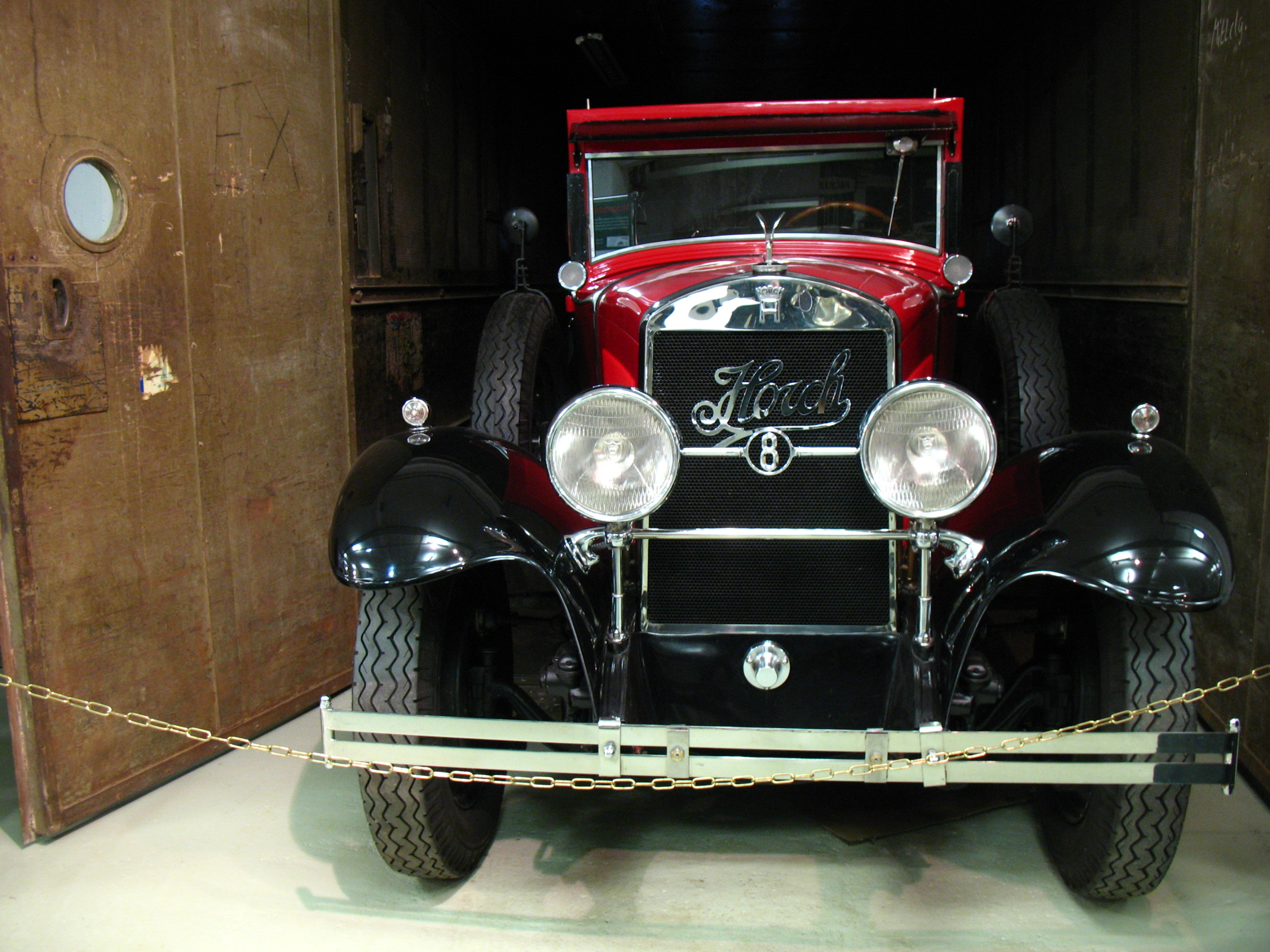 Horch in Elevator of Stern-Garagen Chemnitz (Museum für sächsische Fahrzeuge)